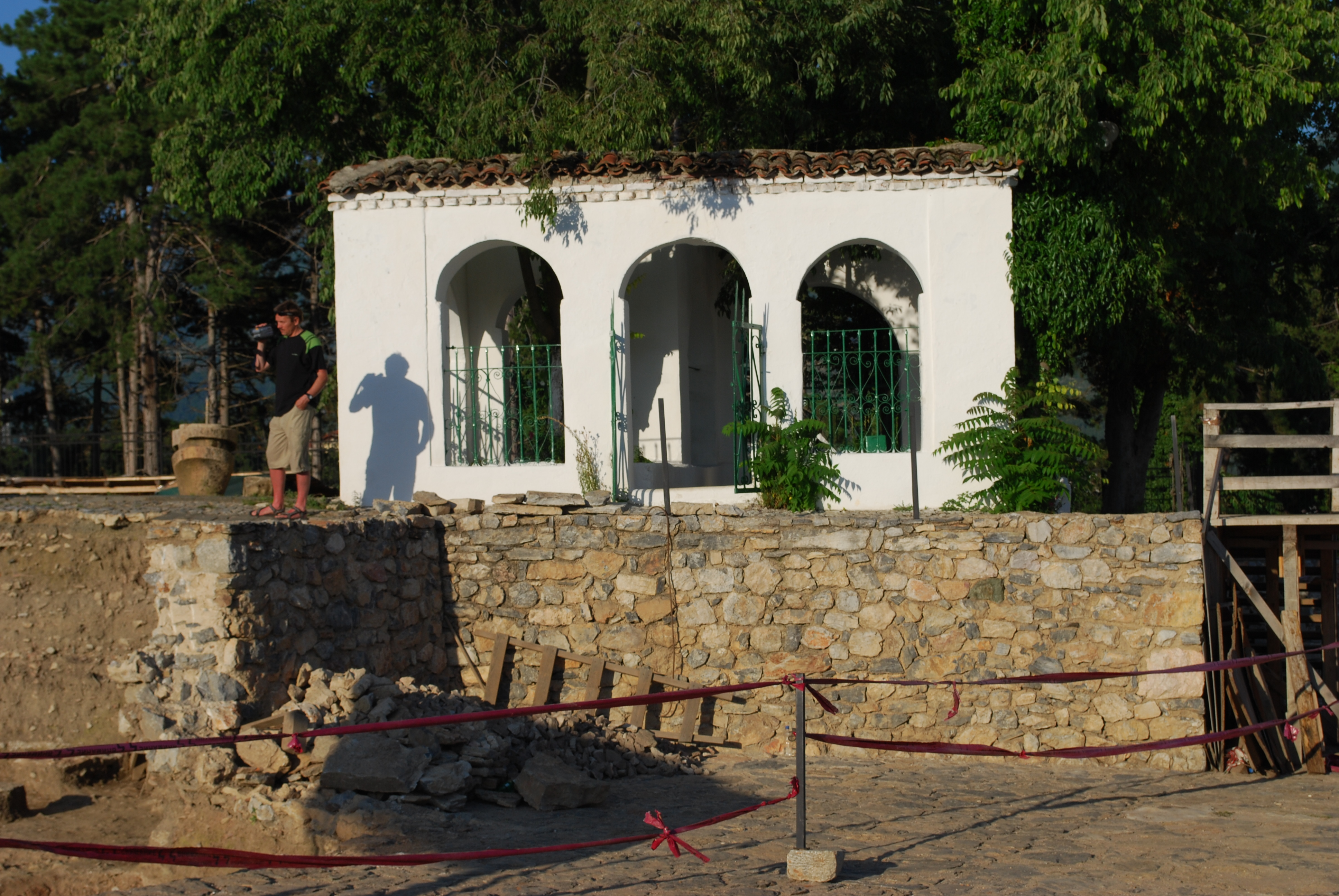 Imam on Plaošnik, Ohrid, Macedonia